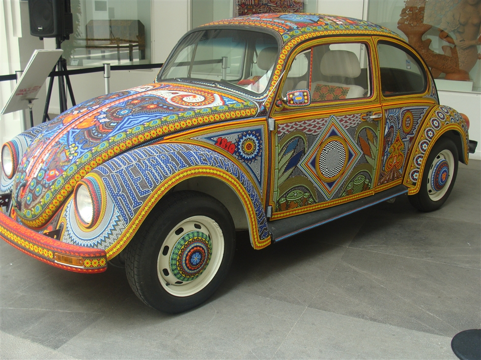 Volkswagen Beetle covered in over 2.5 million beads in Huichol style on display at the Museo de Arte Popular in Mexico City